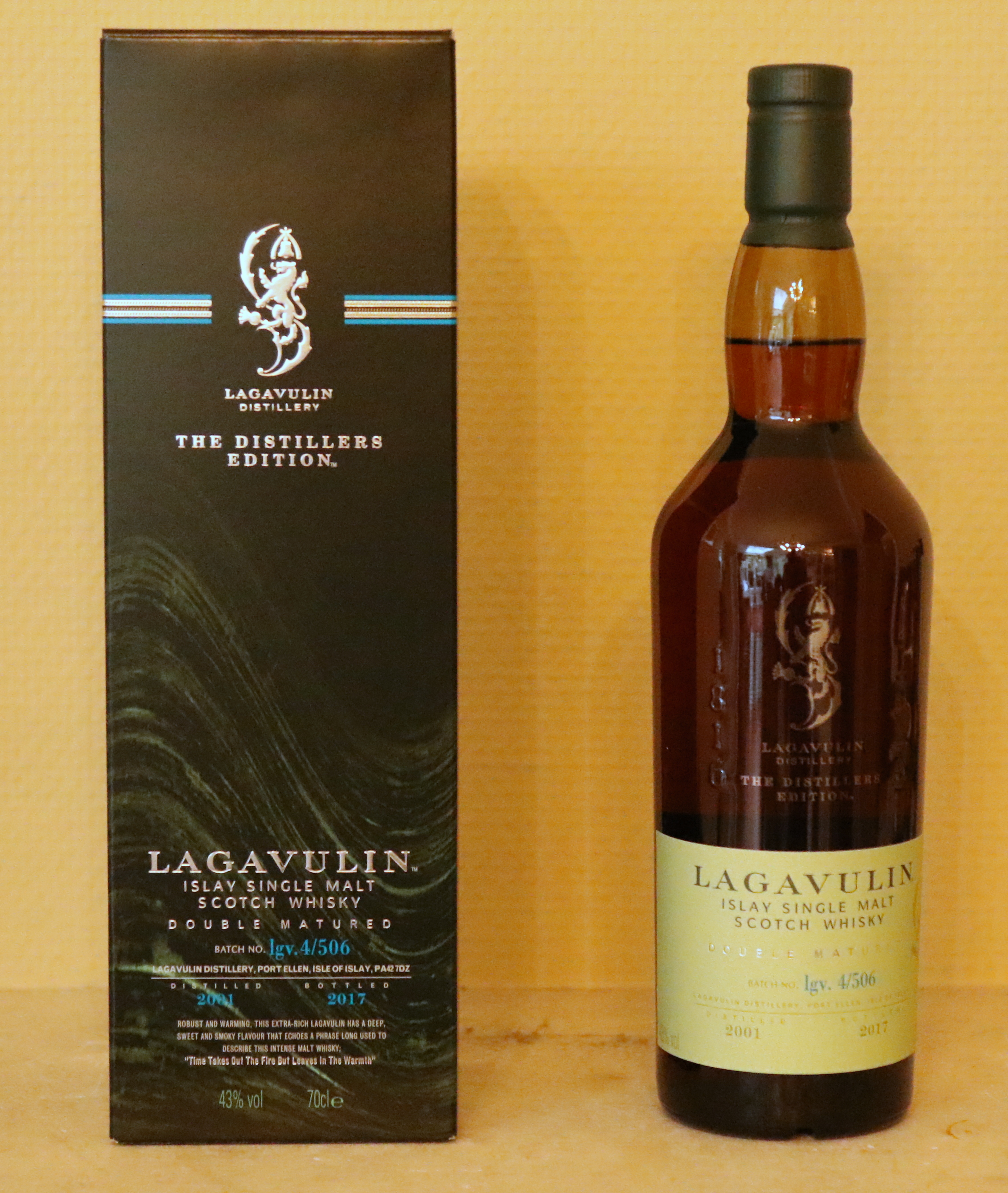 Lagavulin Islay Single Malt Scotch Whisky The Distillers edition